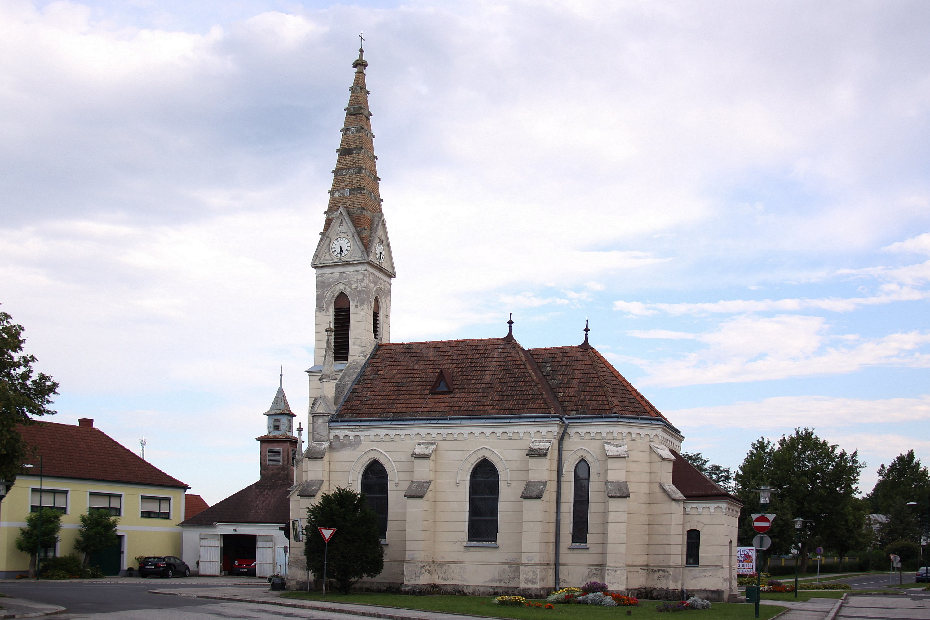 Chapel of ease holy Rochus - Hirm Object location47° 47′ 13.48″ N, 16° 27′ 16.9″ E